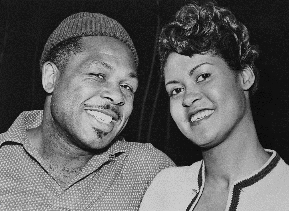 1956 Press Photo Boxer Archie Moore & girlfriend Joan Hardy as he preps for a b